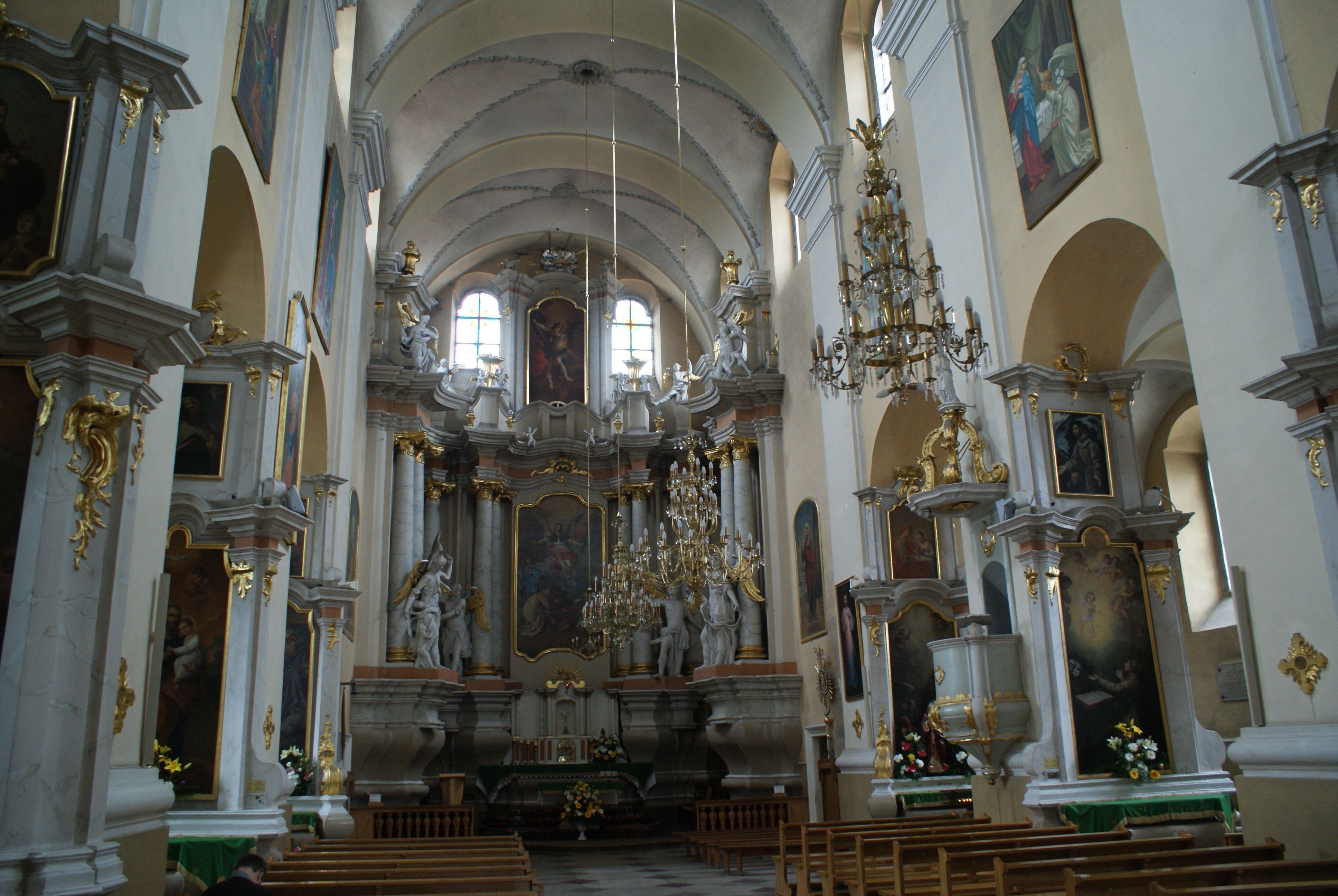 Church of St. Raphael in Vilnius